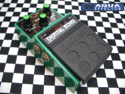 Maxon Digital Echo DE-01 from the 01 Series. Photo: AquaEffector (